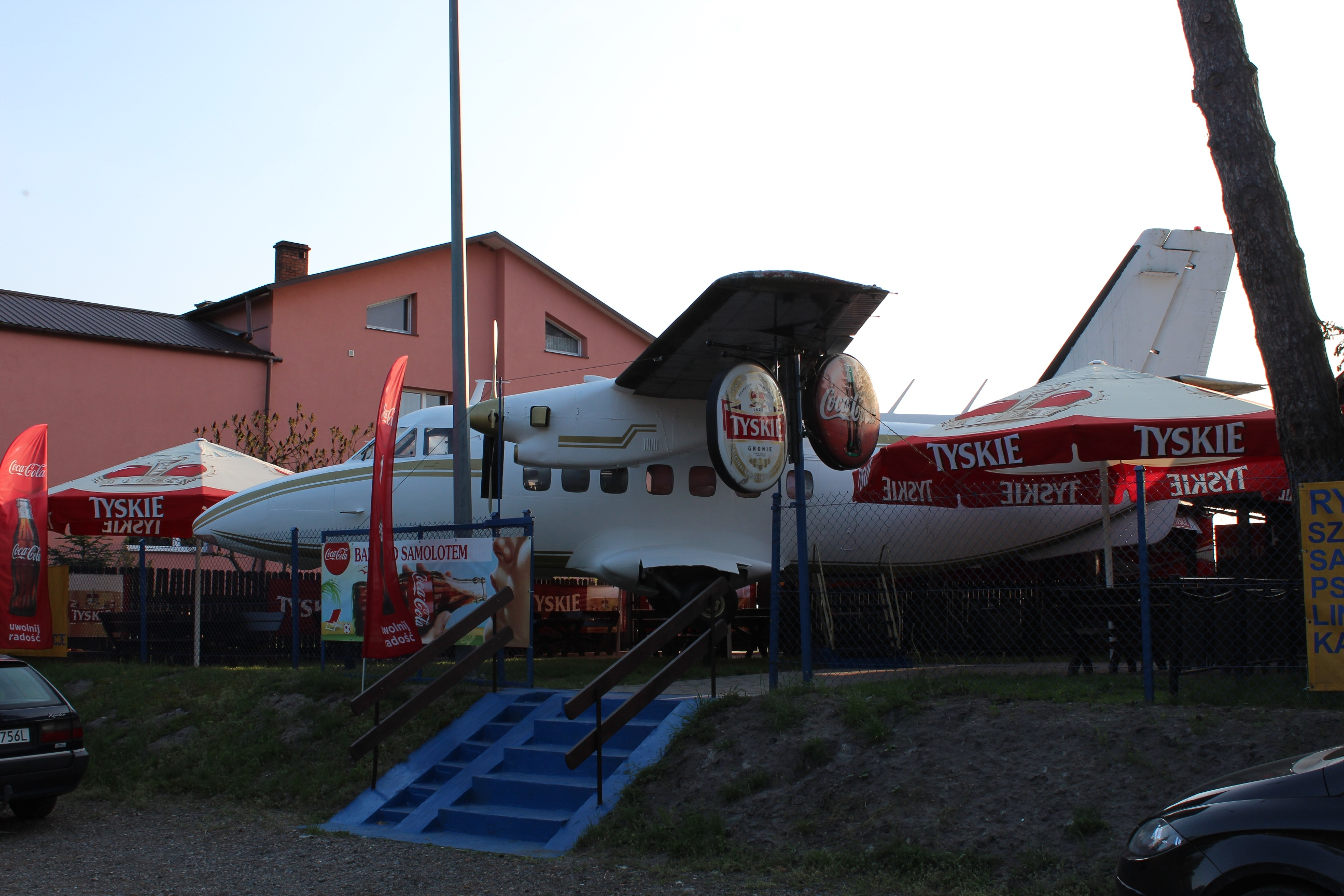 Okuninka - bar on the plane